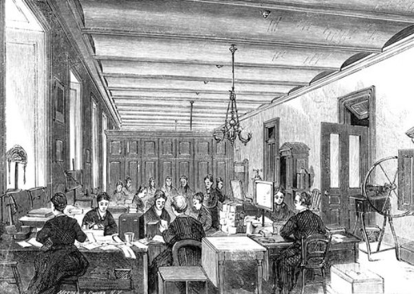 United States Treasury Department in the 19th century. Women were paid $900 yearly, men received $1200 for same work.